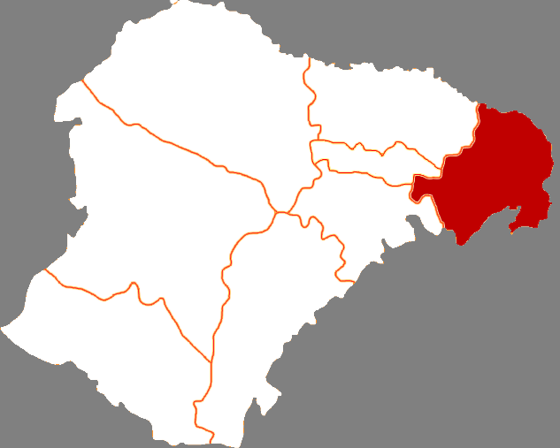 Locator map of Jungar Banner in Ordos City, Inner Mongolia, China